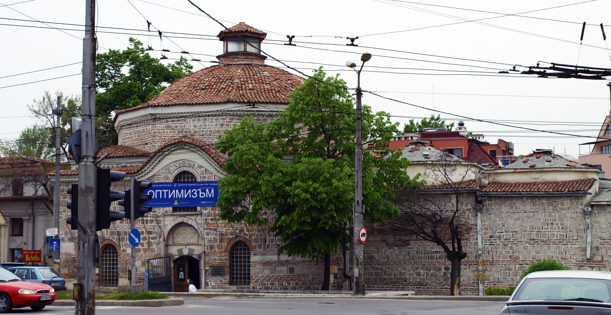 Ancient Bath centre of contemporary art, Plovdiv